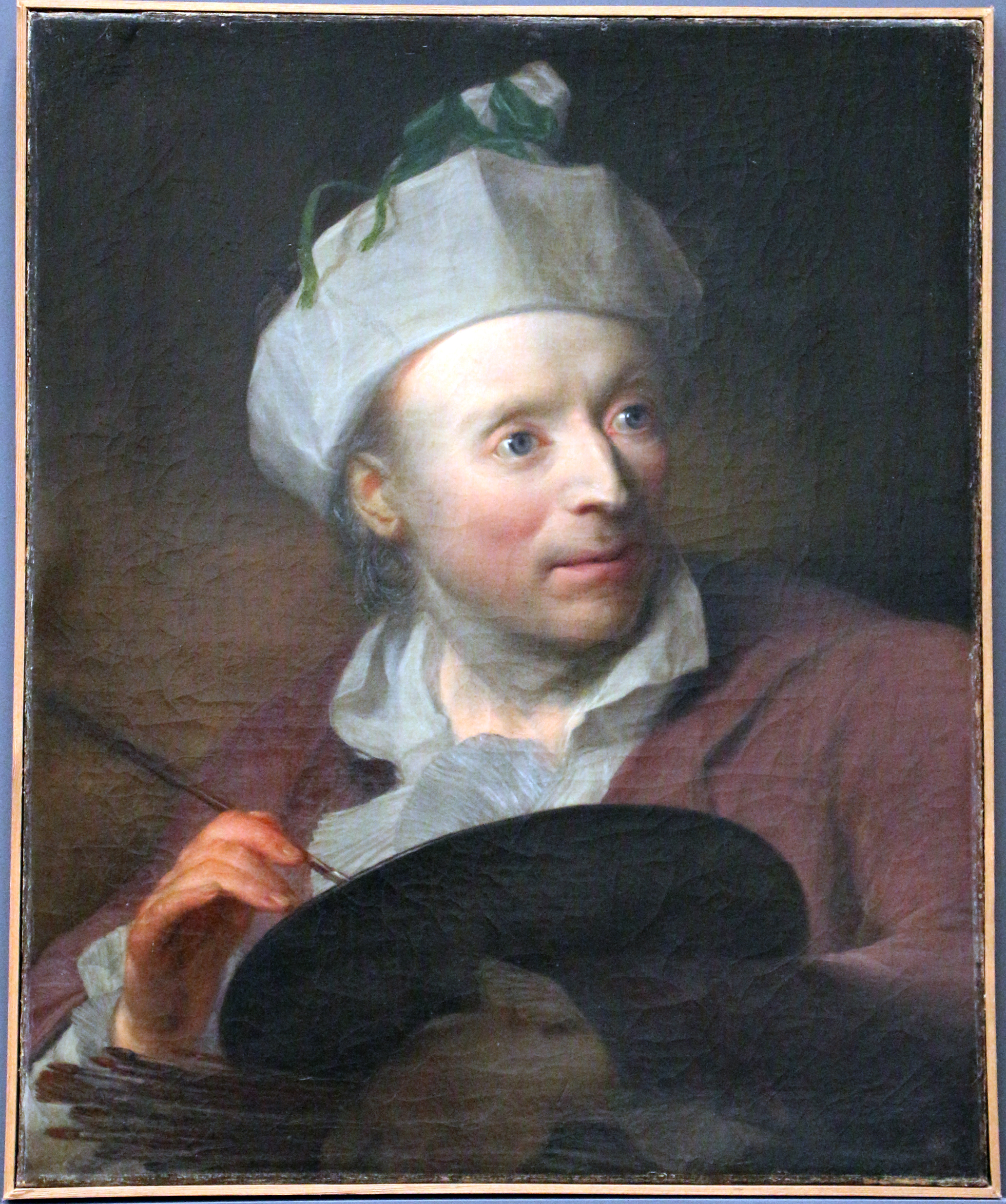 Accademia di San Luca - Gallery